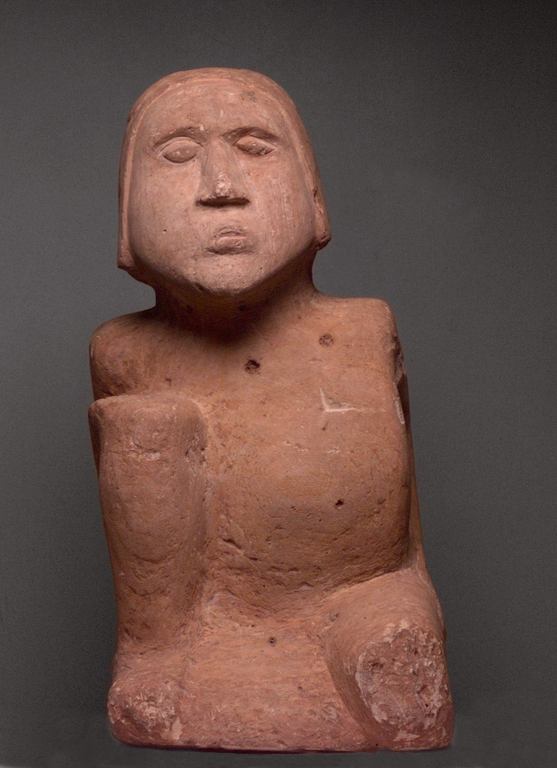 Mississippian culture; Male figure; Stone Sculpture. Discovered at the Link Farm Site located at the confluence of the Duck and Buffalo Rivers in Humphreys County, Tennessee, as part of of a paired male and female set of statues nicknamed "Adam" and "Eve" by the discoverers.[1][2]